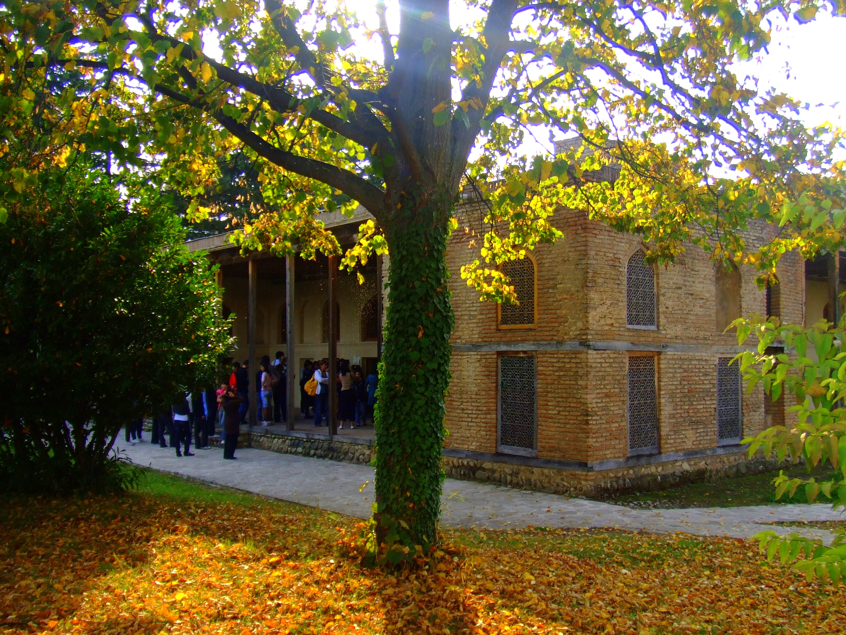 Telavi Беларуская (тарашкевіца): Тэлаві